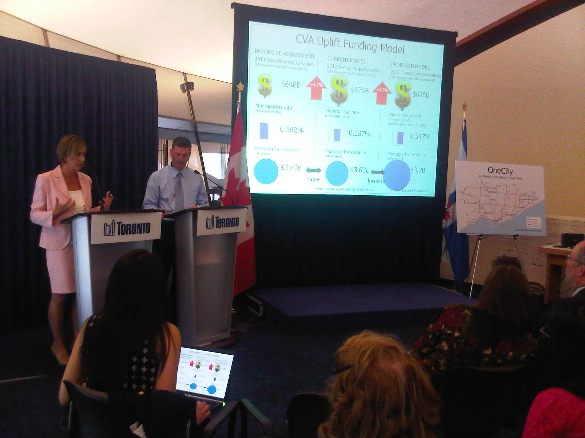 Toronto Transit Commission Chair Karen Stintz and TTC Vice-Chair Glenn De Baeremaeker at a press conference at city hall announcing the proposed OneCity transit plan. Toronto, Ontario, Canada.